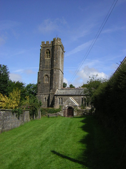 St.Bartholomew's church, Stoke Rivers, Devon. A splendid Devon church with a handsome tower and humble interior